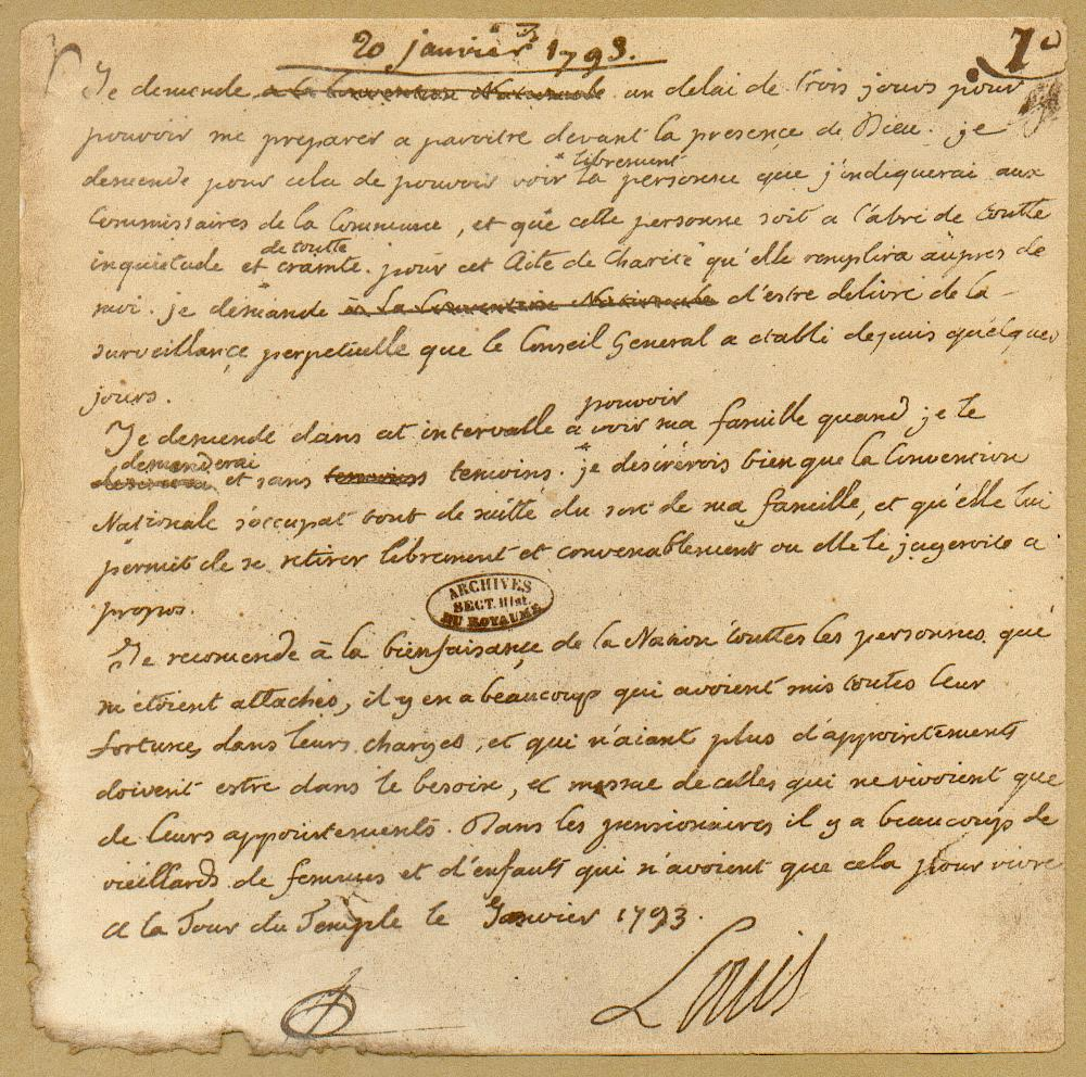 Louis XVI asks for three days of delay. Letter dated 20 january 1793, eve of his execution.